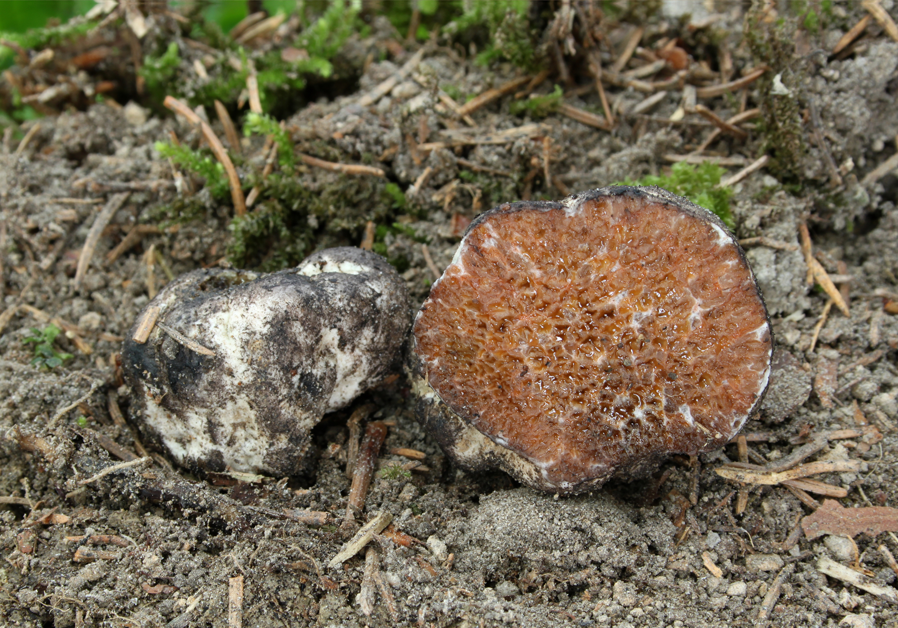 Octaviania asterosperma, Family: Octavianiaceae, Location: Germany, Ulm, Ringingen Thanks for the help: AMU (Mycological Working Group Ulm), R. Seibert, K. Keck, J. Marqua, G. Hensel. Hint: Only area geotagging because it´s a very rare species.